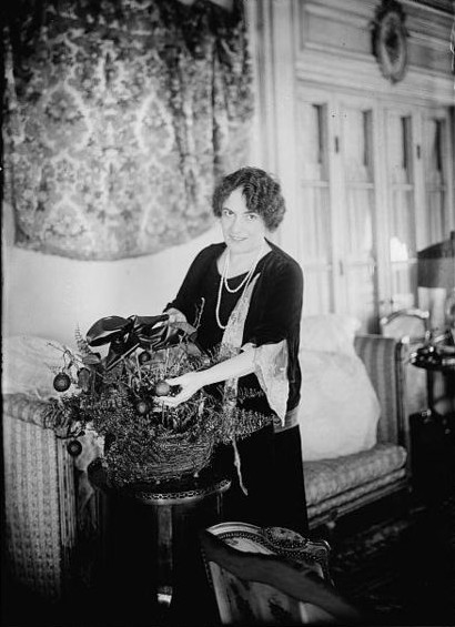 Frances Alda, a New Zealand operatic soprano